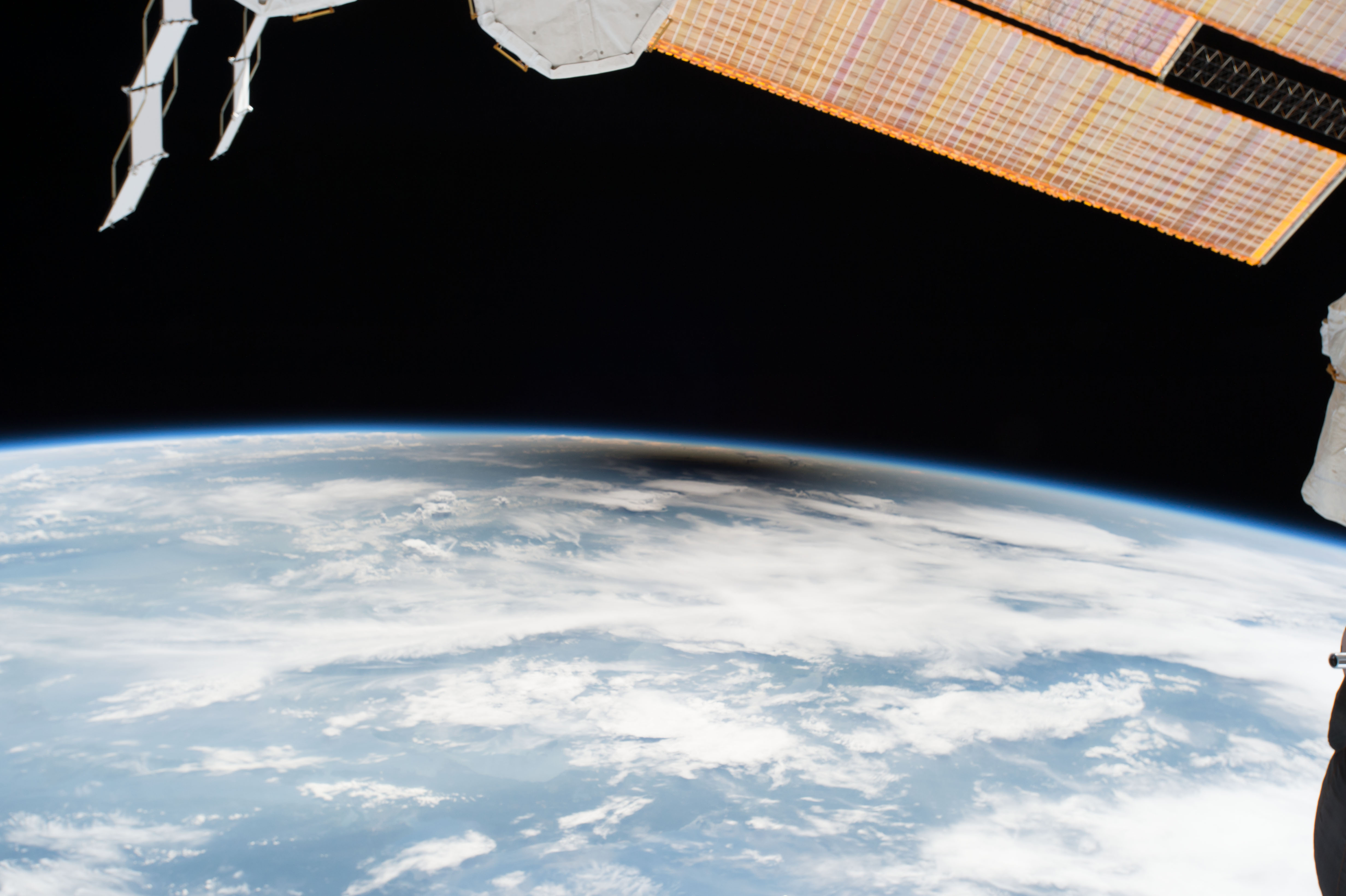 As millions of people across the United States experienced a total eclipse as the umbra, or moon’s shadow passed over them, only six people witnessed the umbra from space. Viewing the eclipse from orbit were NASA’s Randy Bresnik, Jack Fischer and Peggy Whitson, ESA (European Space Agency’s) Paolo Nespoli, and Roscosmos’ Commander Fyodor Yurchikhin and Sergey Ryazanskiy. The space station crossed the path of the eclipse three times as it orbited above the continental United States at an altitude of 250 miles.